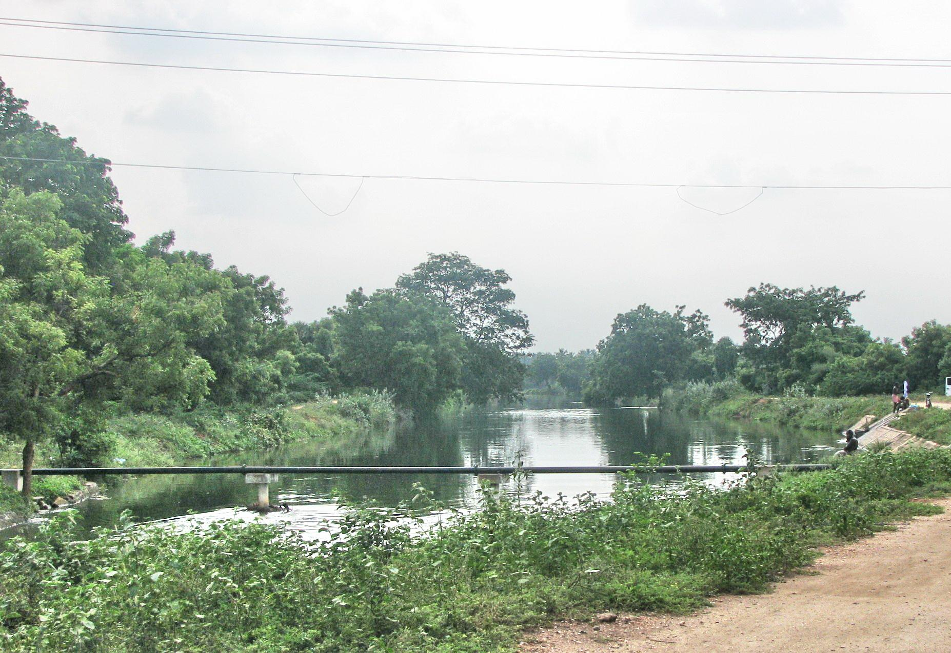 Lower bavani project canal. this canal starts from bavanisagar dam constructed across river Bavani in Tamil nadu. Picture taken near Perundurai. another view.